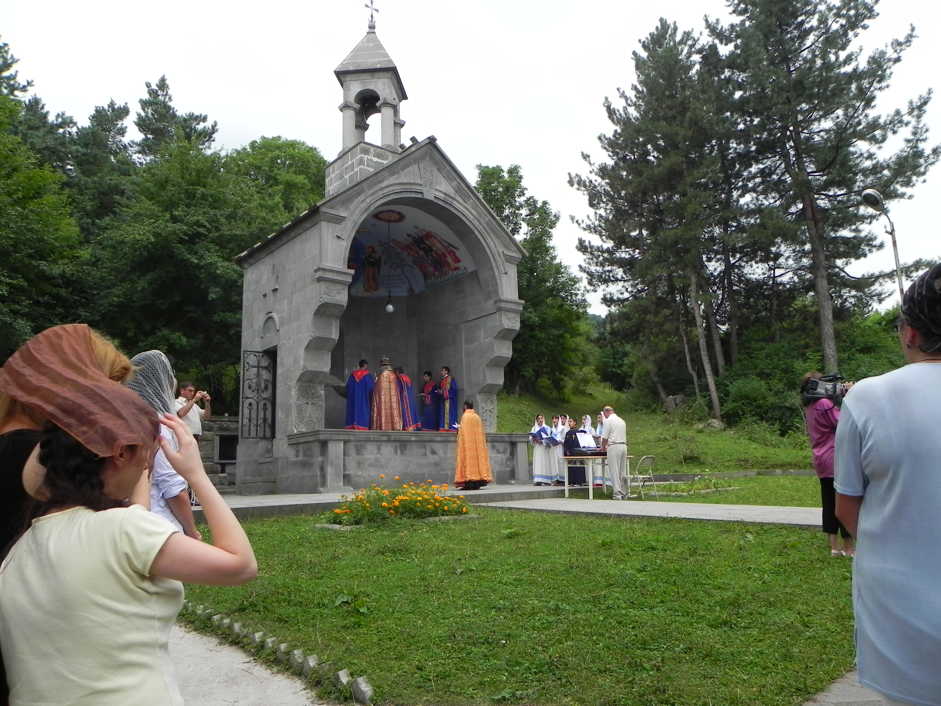 Liturgy Service at Holy Children Chapel near Vanadzor, Armenia